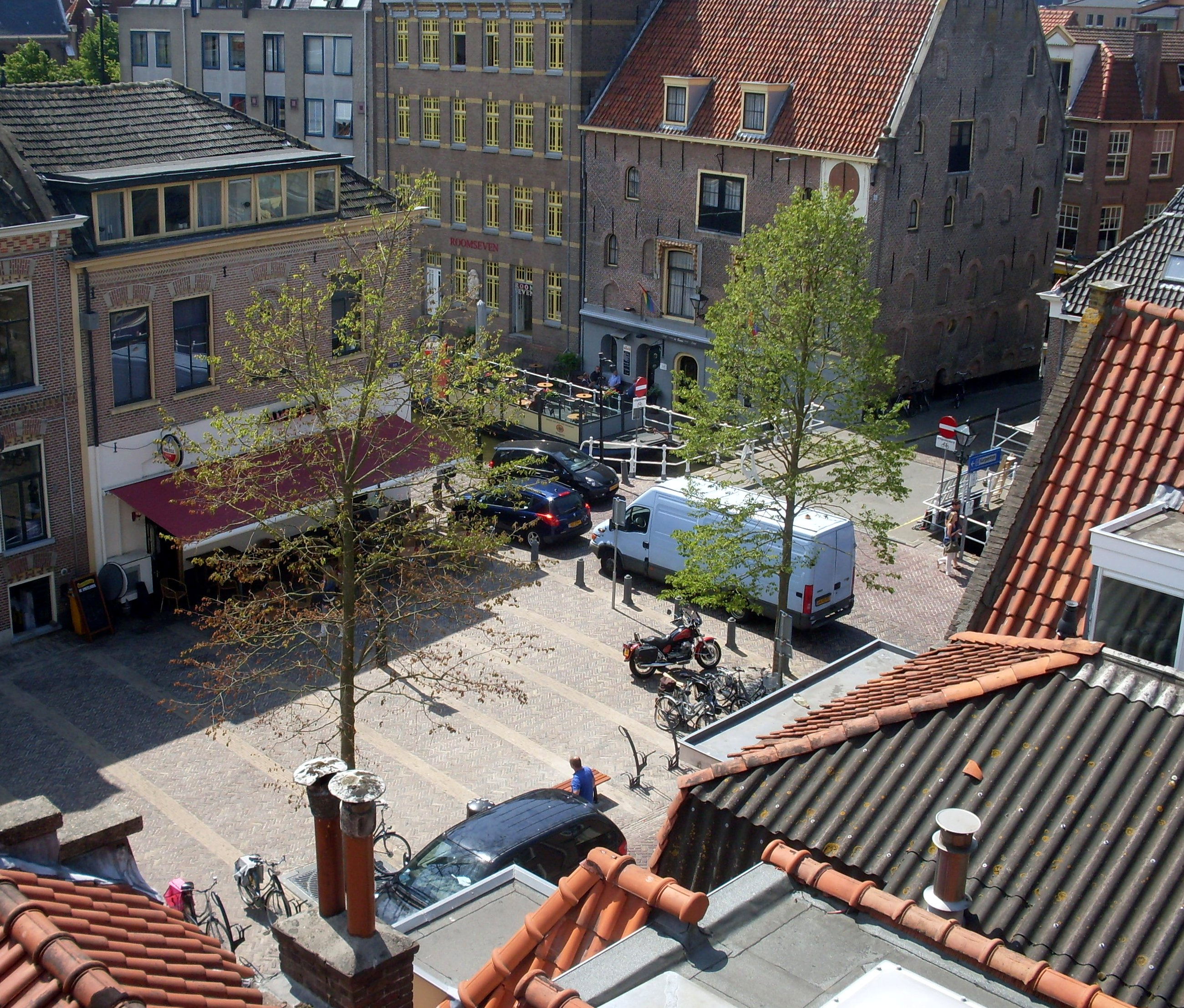 National Beer Museum "De Boom" in Alkmaar, the Netherlands.